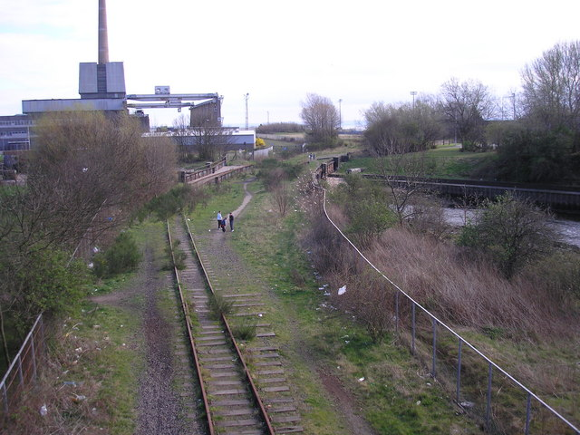 The Railway Children The view from the roadbridge over the railway line, which served the power station and the docks.